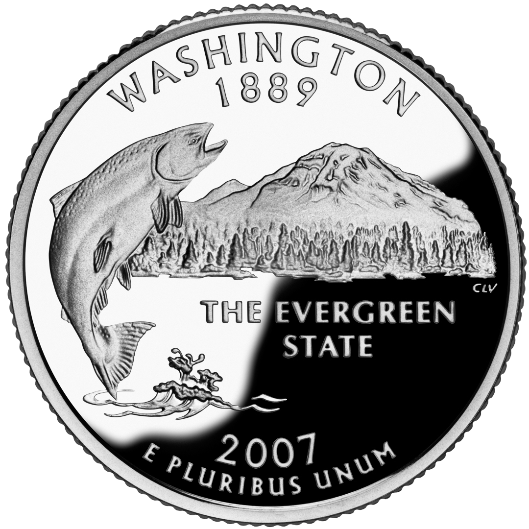 US Mint